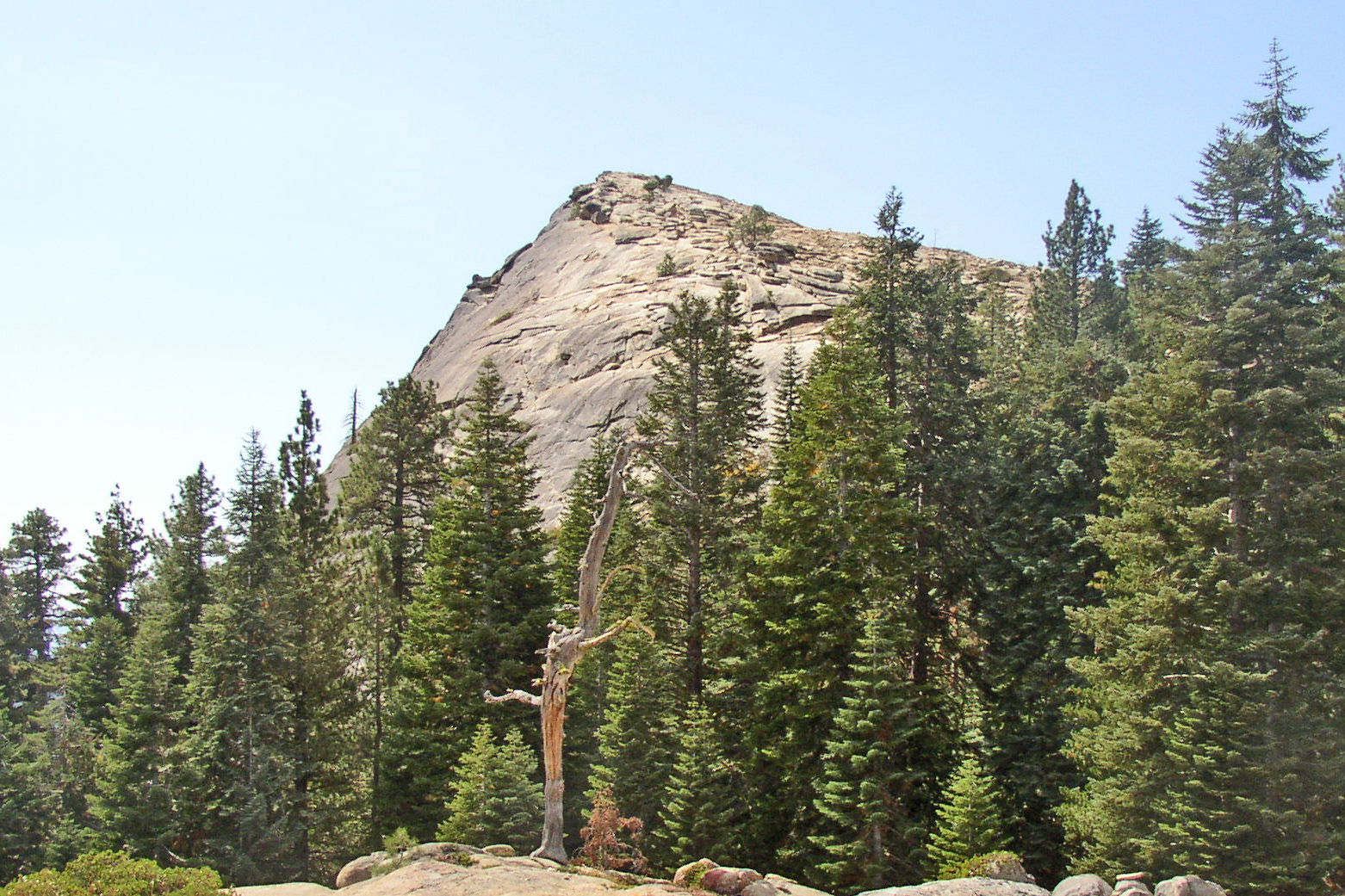 Fresno Dome — a dominant granite dome of the Sierra Nevada, rising in isolation above the forest of Soquel Meadow in the Sierra National Forest. Located in Madera County, California. Credits Photograph of Fresno Dome taken by Guy William Welch on October 30, 2004.